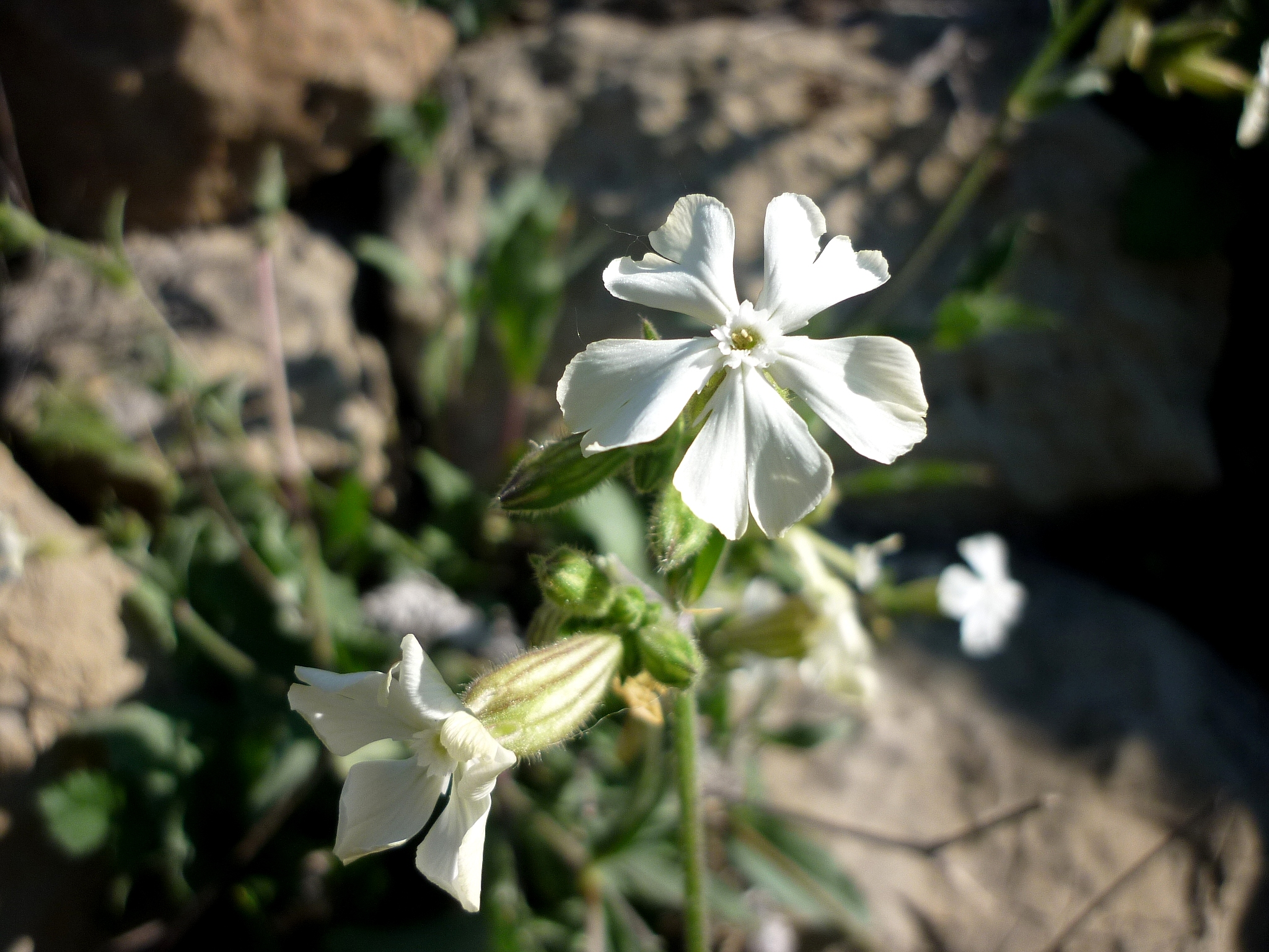 Silene latifolia . In Pinós (Solsonès - Catalunya). To 680 m. altitude